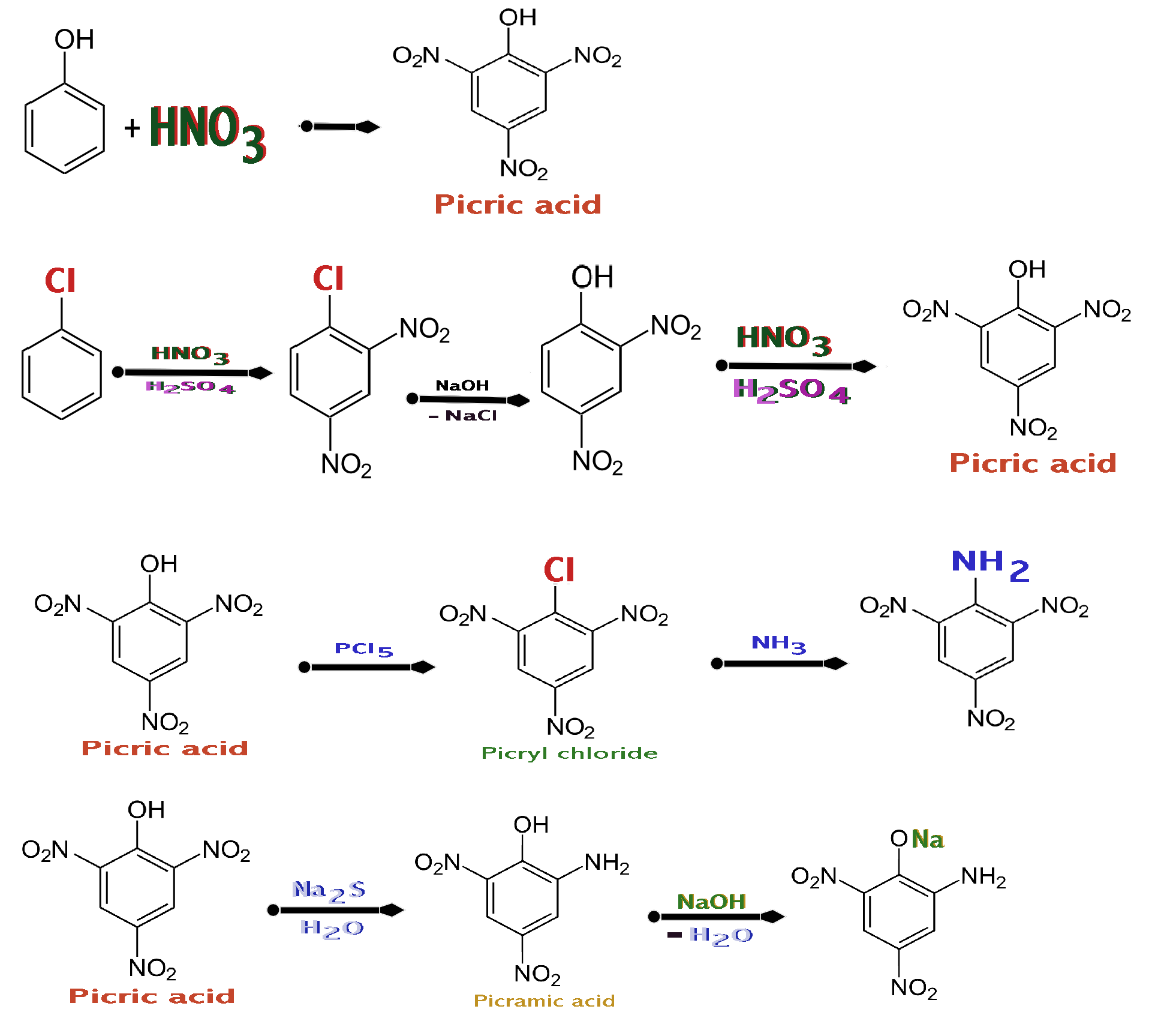 Synthesis of sodium salt of picramic acid from phenol and chlorobenzene.